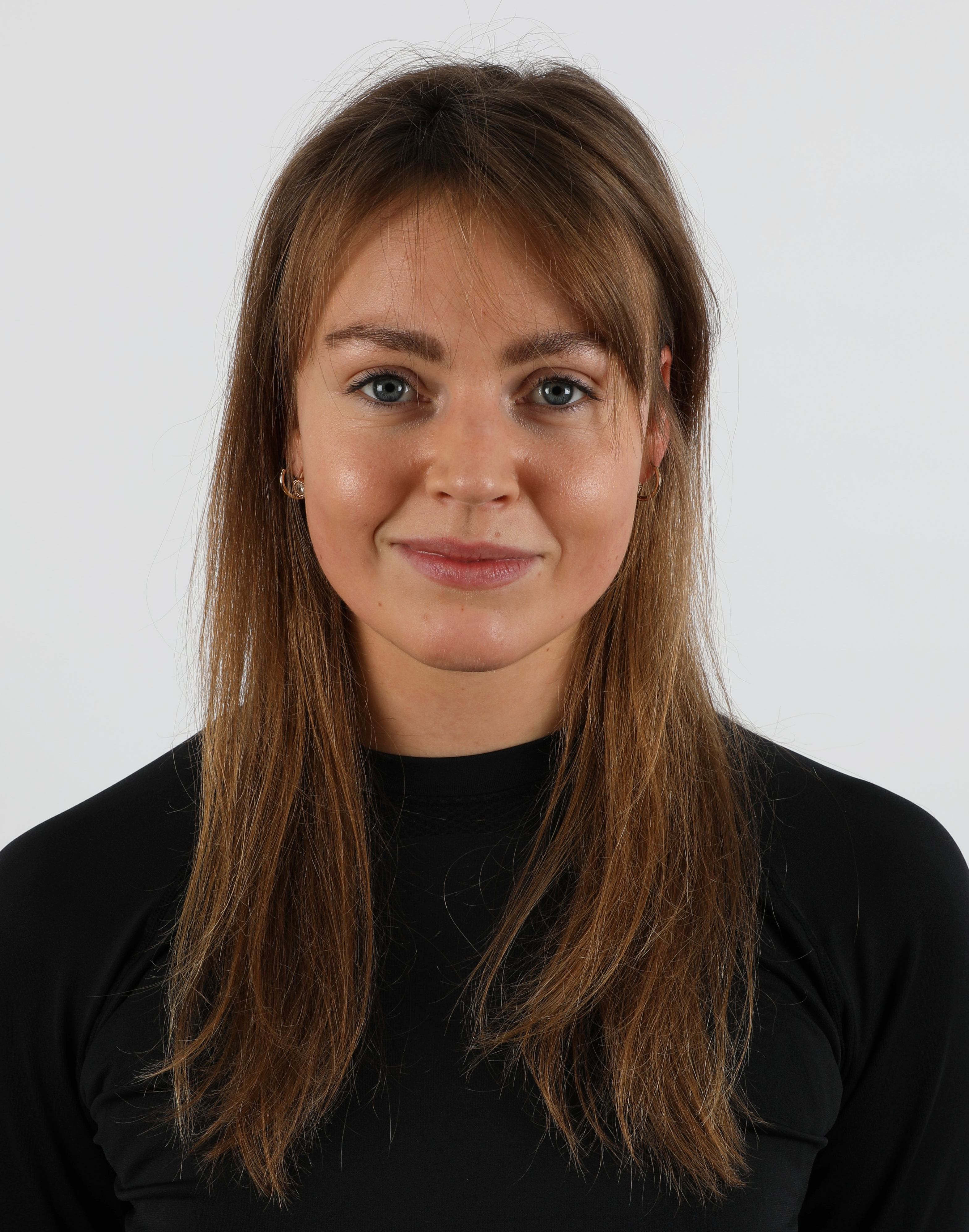 Athletes' photo project at the 2018/19 Innsbruck-Igls Luge World Cup: Ulla Zirne (Latvia)